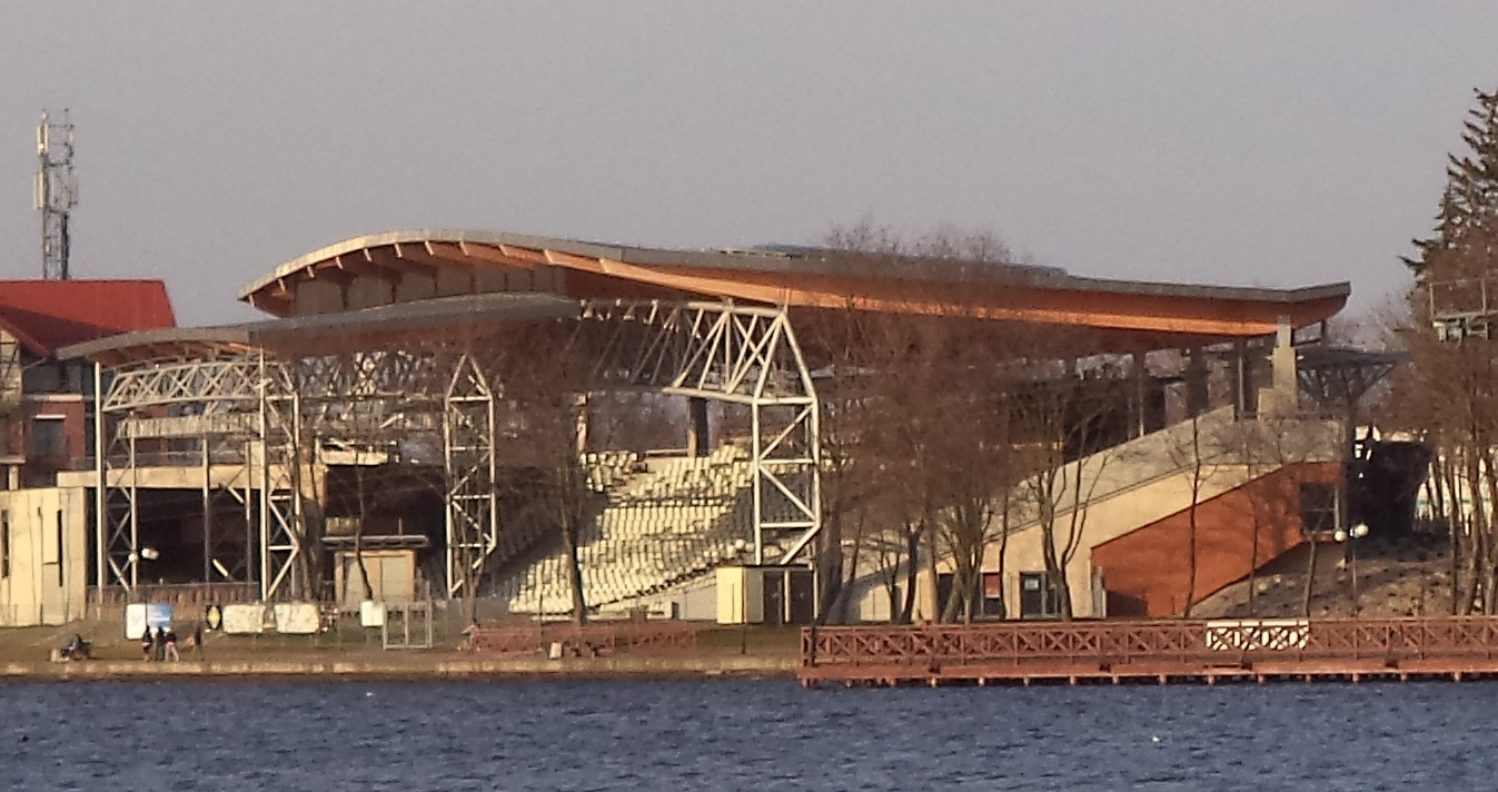 Ostróda Amphitheatre